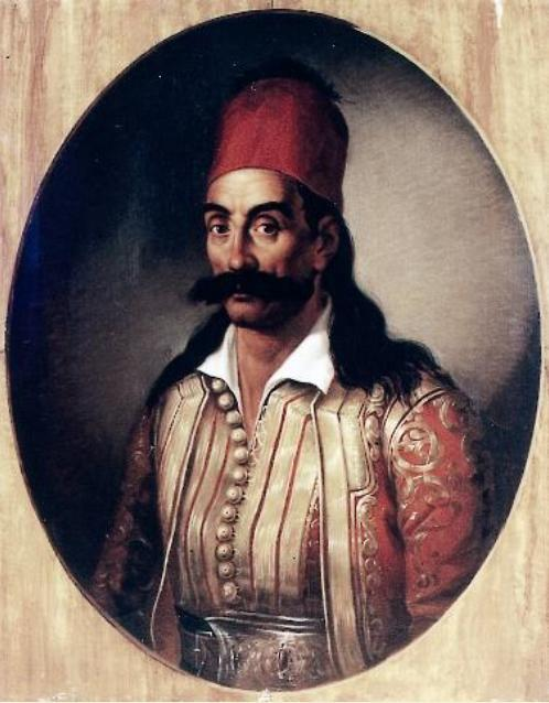 Georgios Karaϊskakis (1780 - 1827) Greek Fighter of the 1821 Revolution Γεώργιος Καραϊσκάκης